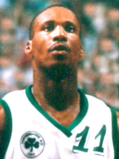 Byron Scott playing for Panathinaikos, during Greek league A1 playoff finals 1998 against PAOK BC